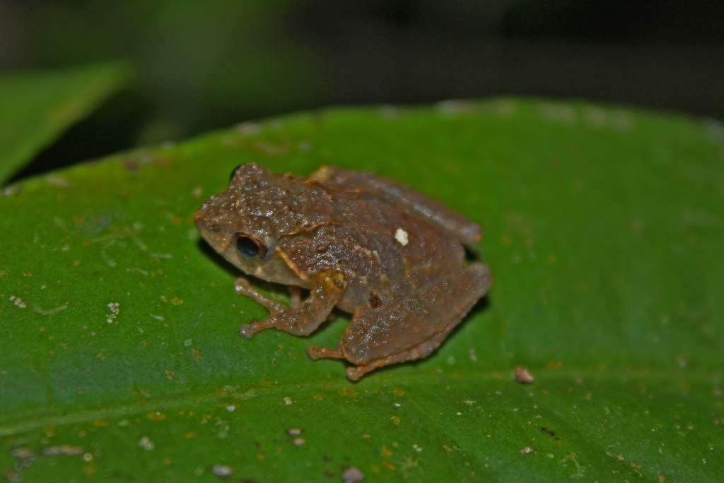 Found next to a forest stream in Kinabalu National Park, at approximately 1585m above sea level.